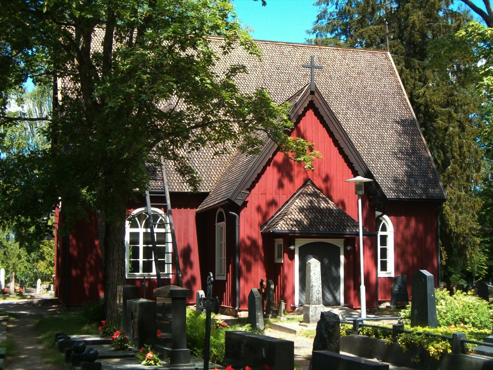 Sammatti Church in Lohja, Finland.